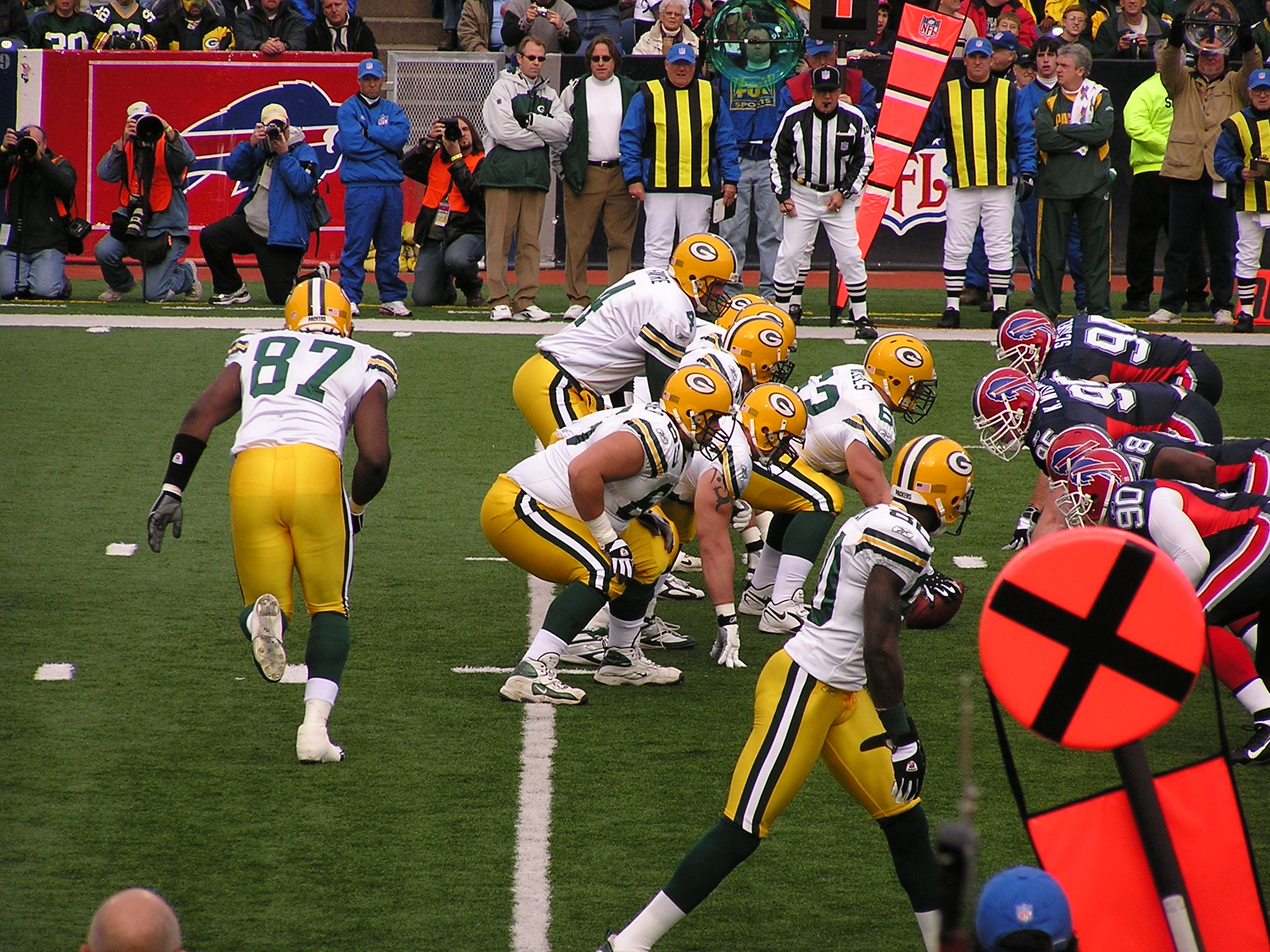 Brett Favre Under Center against the Bills in Orchard Park, NY.